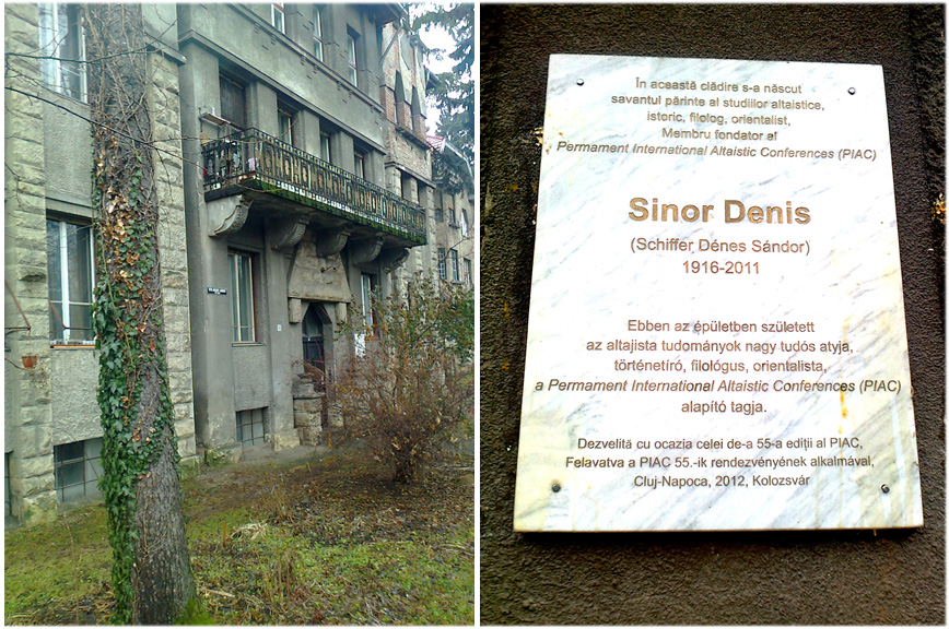 Birth-house of Sinor Denis (1916-2011), linguist born in Kolozsvár (now Cluj-Napoca)